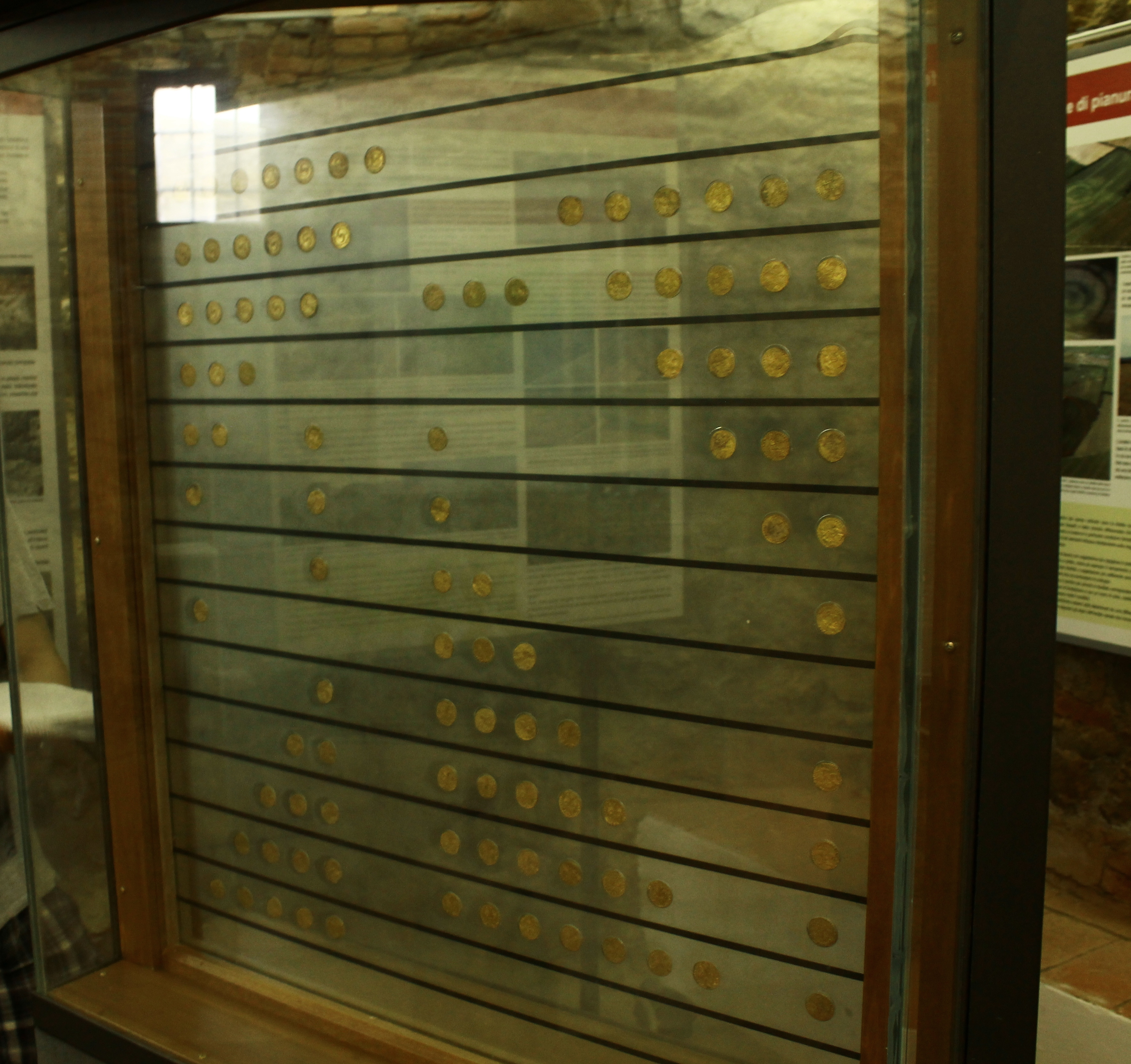 Archeological Museum R. Francovich, Scarlino